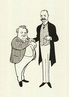 Olaf Poulsen, actor, and Johan Maria Risom (1842-1915), physician